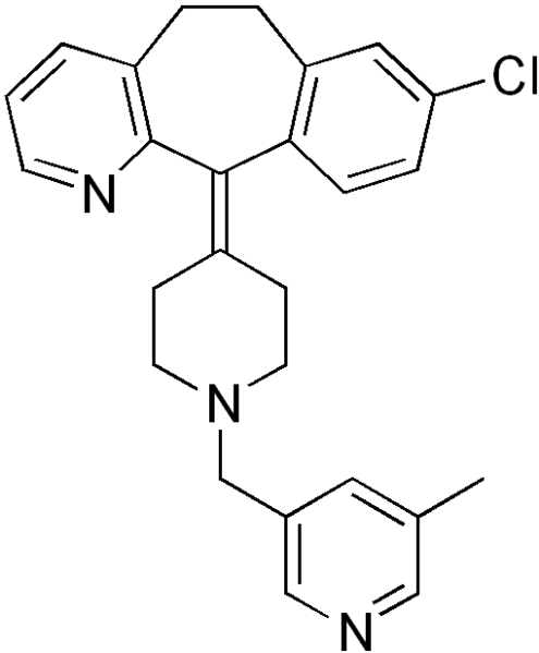 chemical structure of rupatadine created with ChemDraw